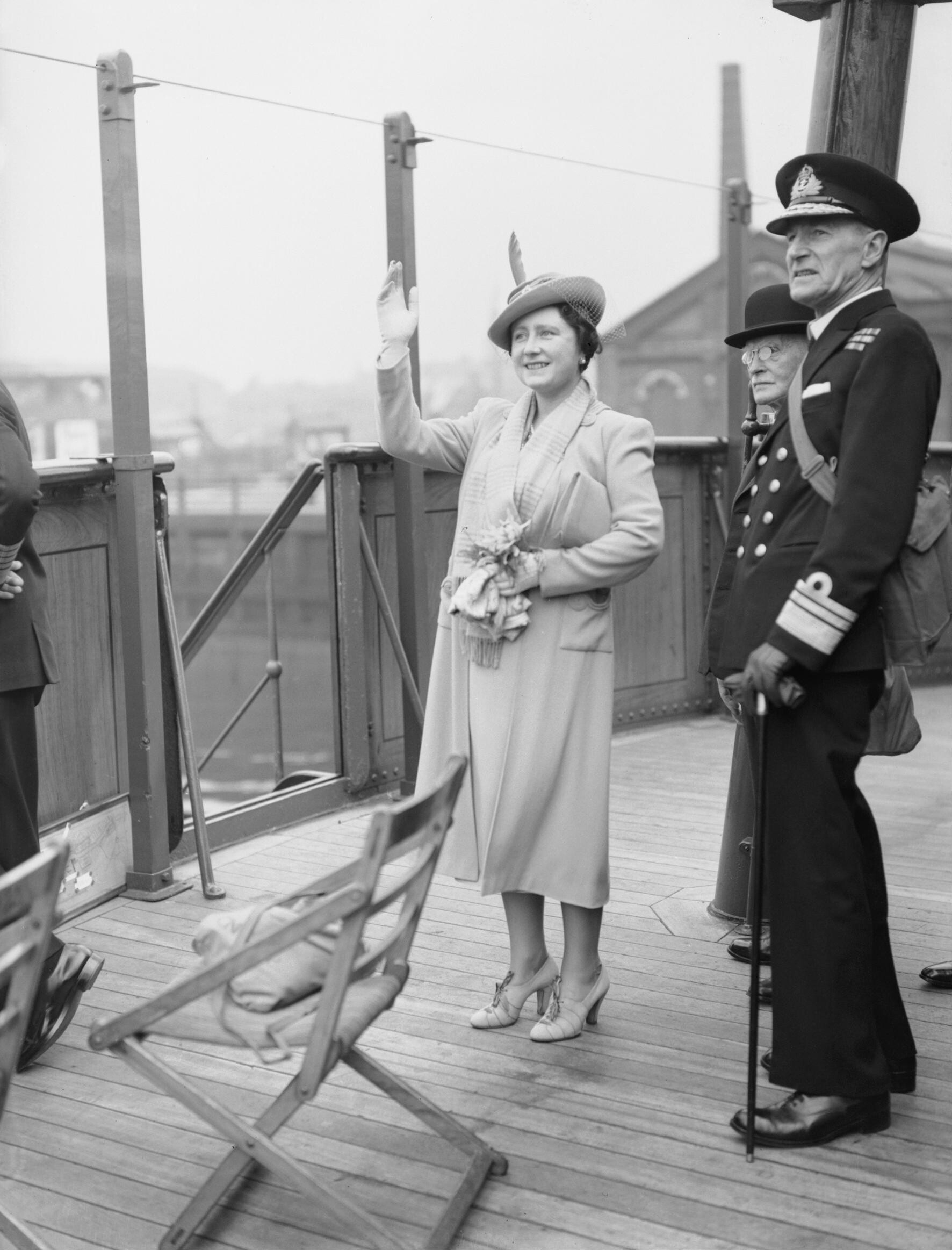 HM Queen Elizabeth on the bridge of the SS QUEEN MARY acknowledging cheers from passing ships during a trip down the Clyde, 4 June 1942. HM Queen Elizabeth stood on the bridge of the SS QUEEN MARY acknowledging cheers from passing ships during a trip down the Clyde. With her is Vice Admiral J A G Troup, CB.